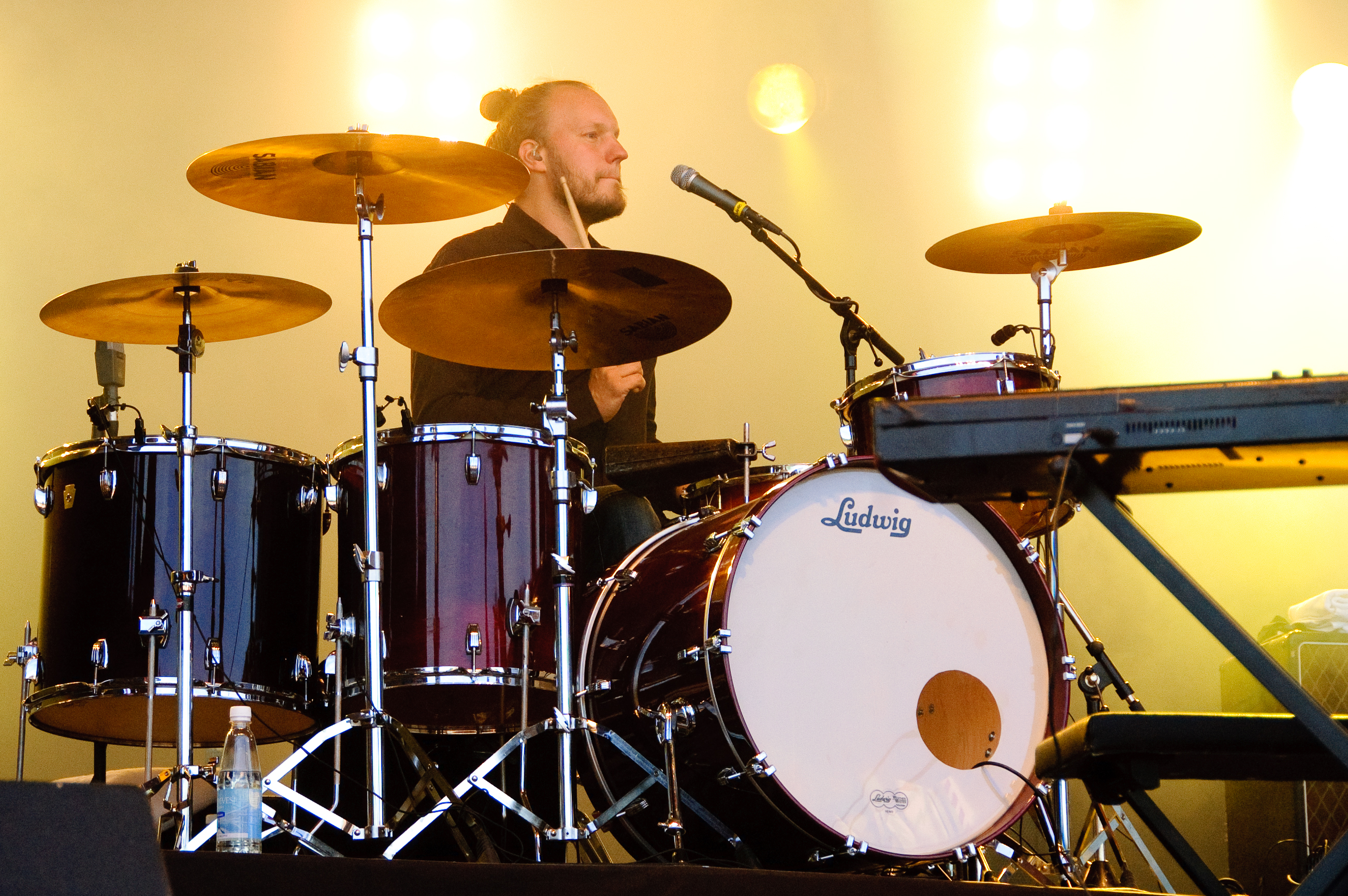 Drummer Sampo Haapaniemi of Egotrippi performing at the Ilosaarirock 2009 festival in Joensuu Finland.